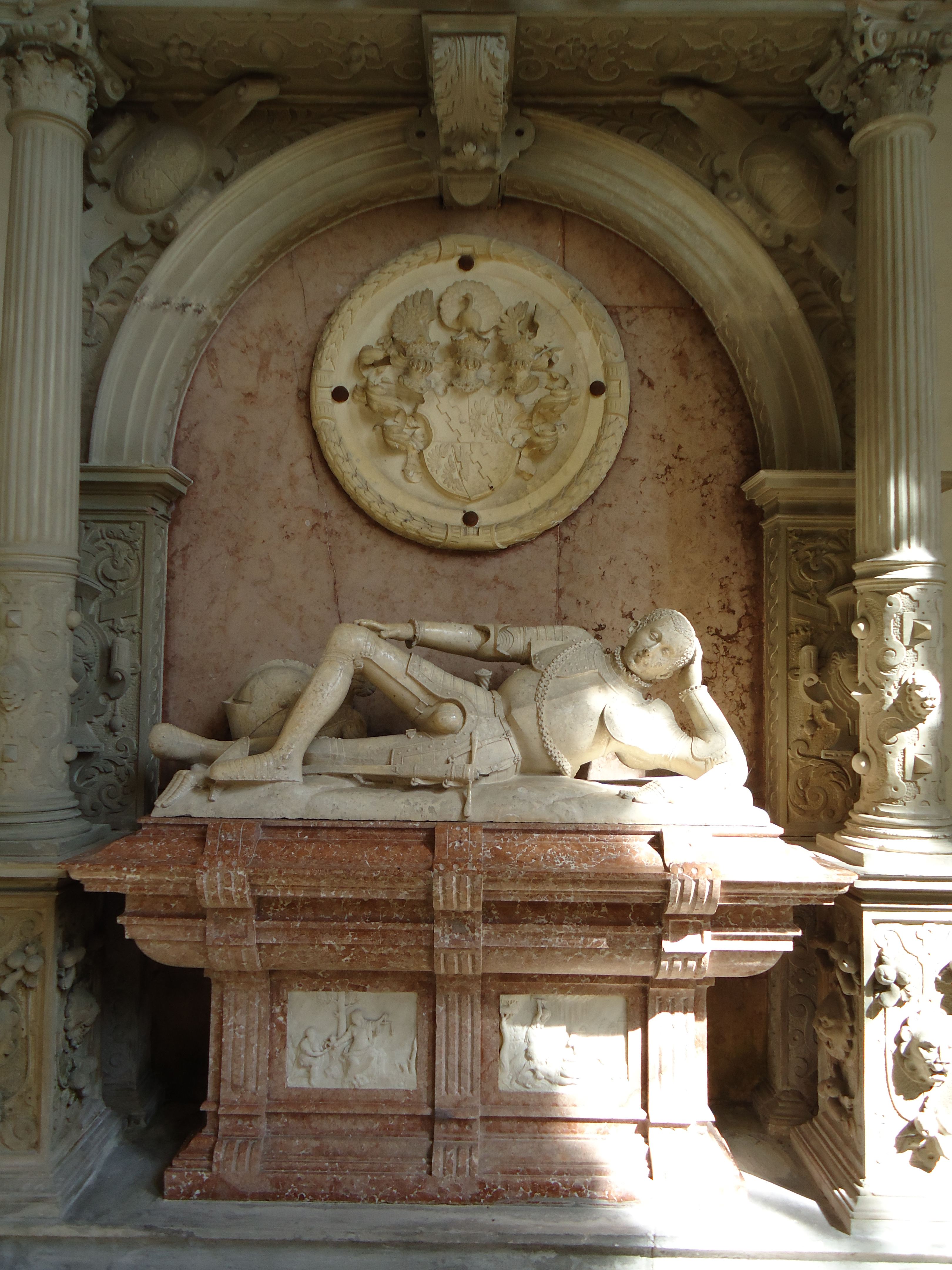 Kenotaph for Count Anton von Ortenburg